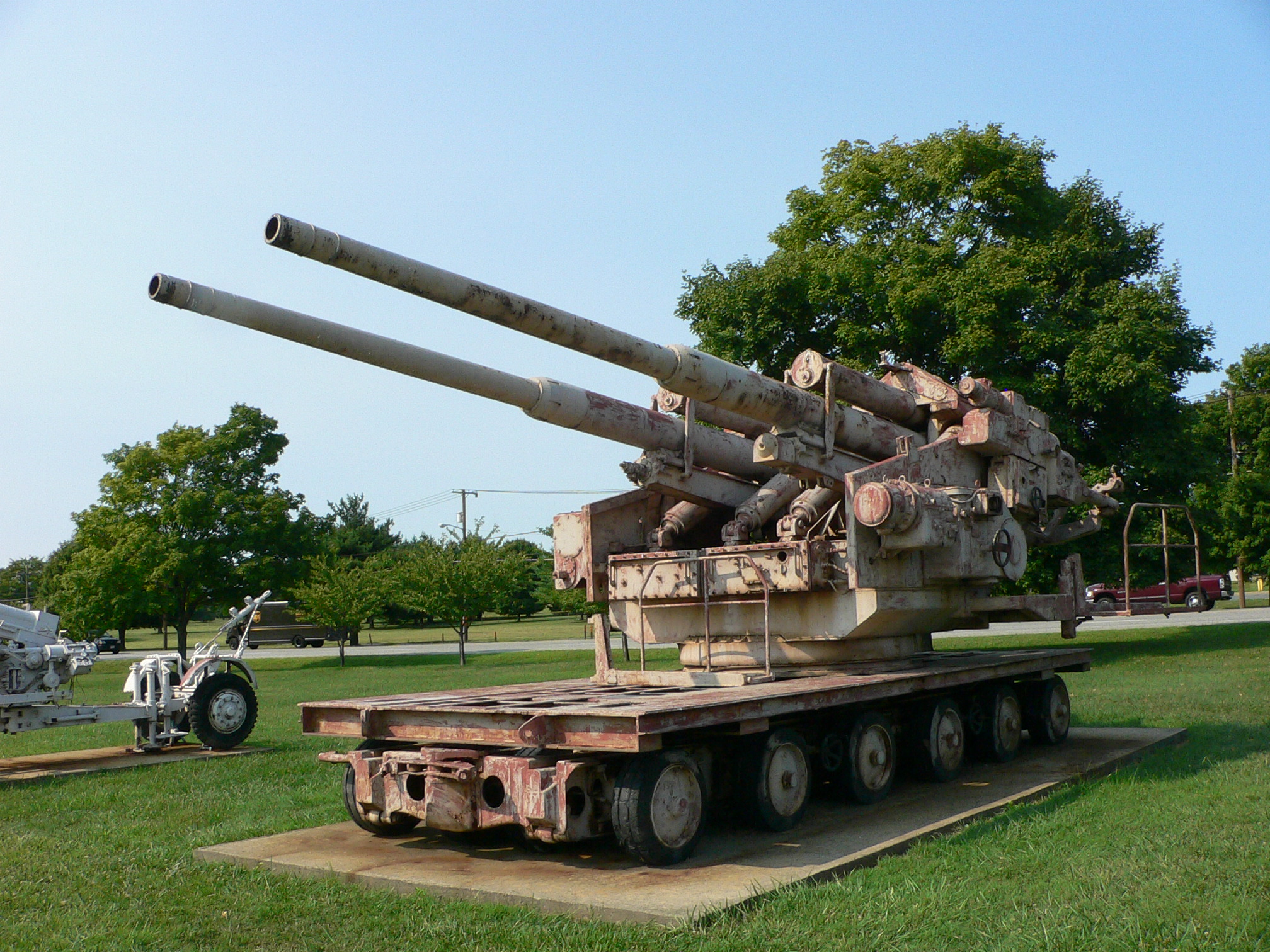 Picture taken by myself, Mark Pellegrini, at the United States Army Ordnance Museum (Aberdeen Proving Ground, MD) on August 14, 2007.